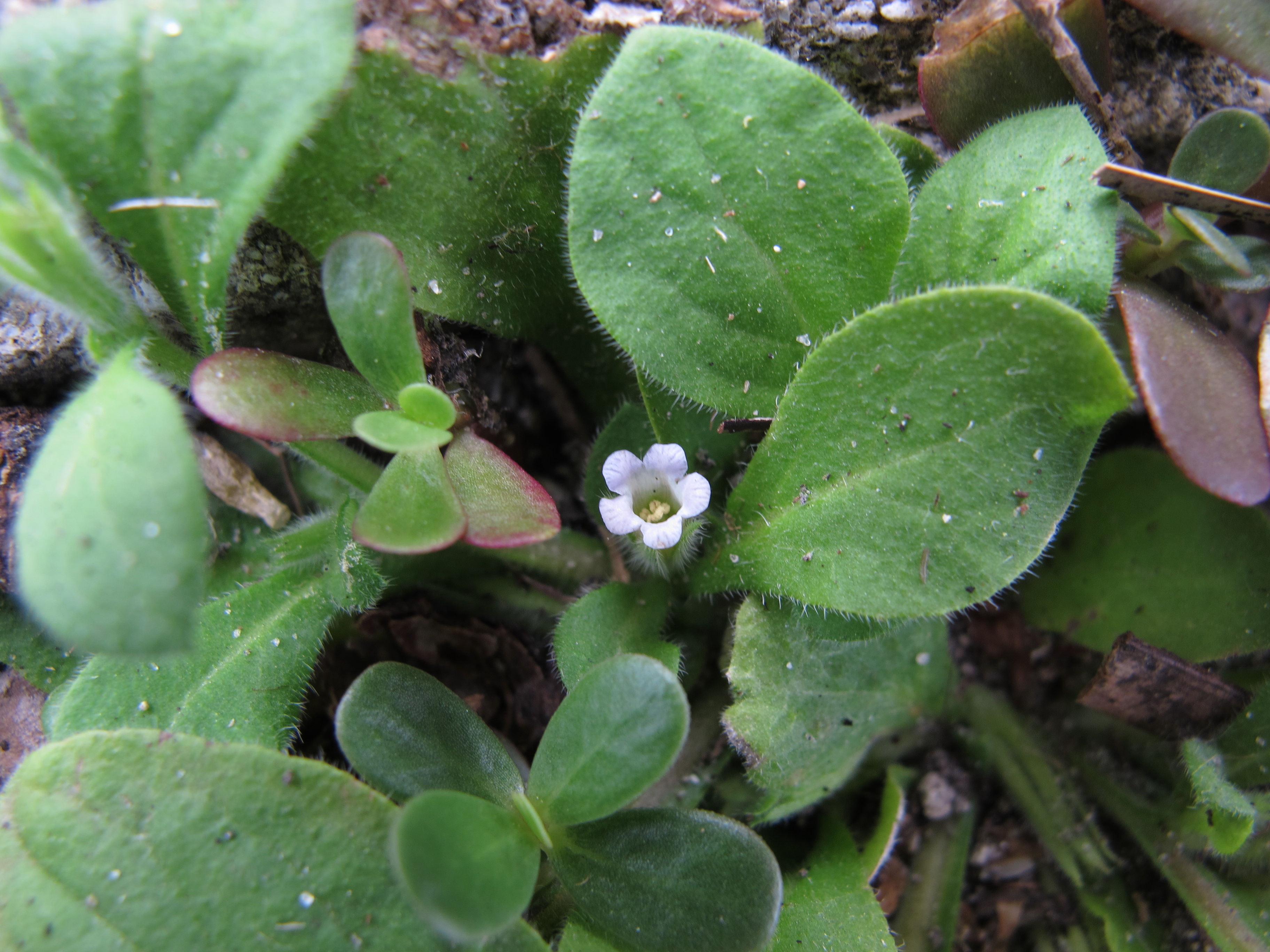 weed in pavement, Miami-Dade Co., Florida, USA.